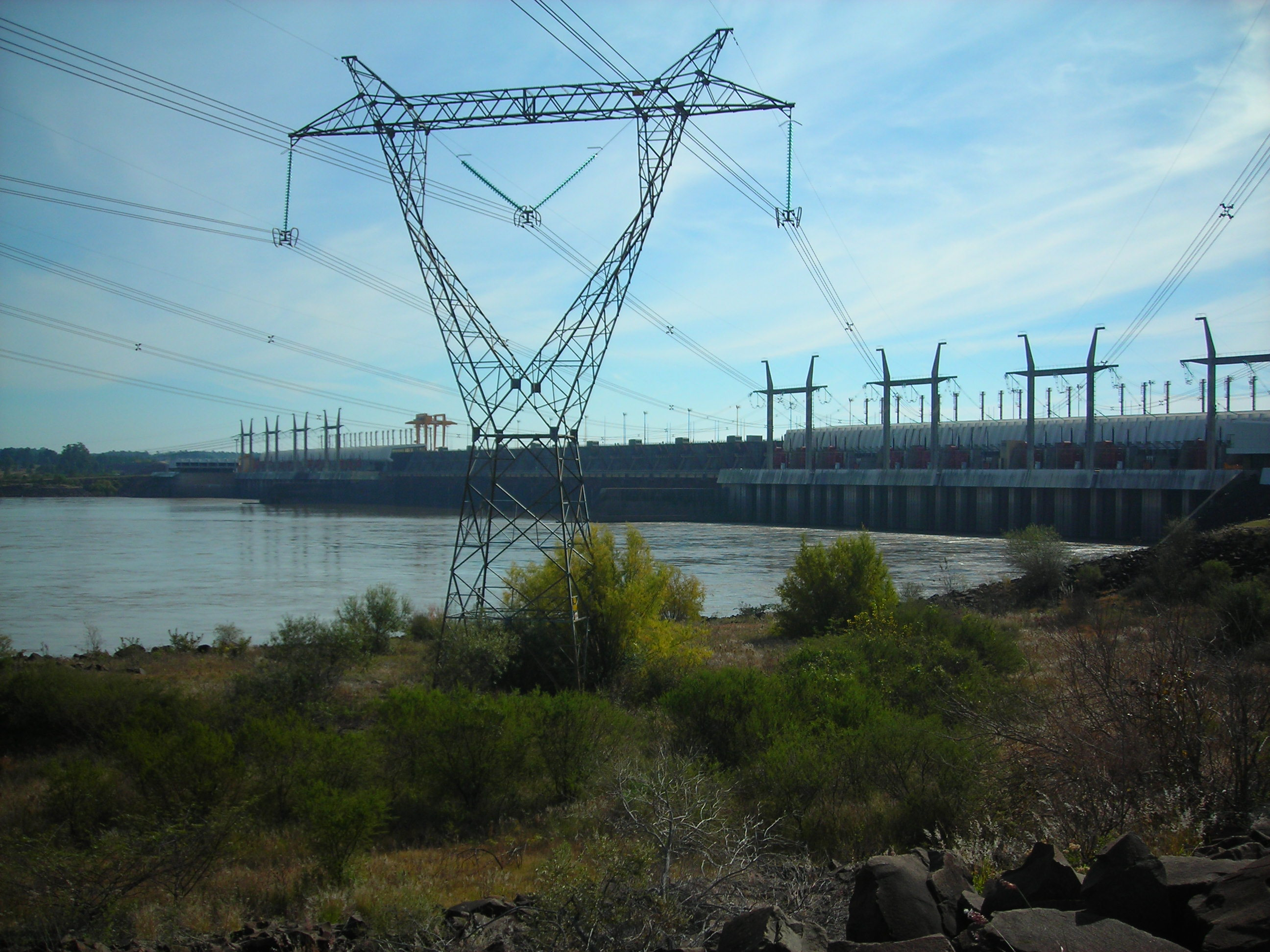 Salto Grande Dam, seen from Uruguay side